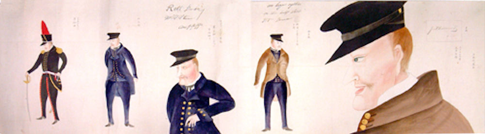 Foreigners_in_Yokohama_in_1854